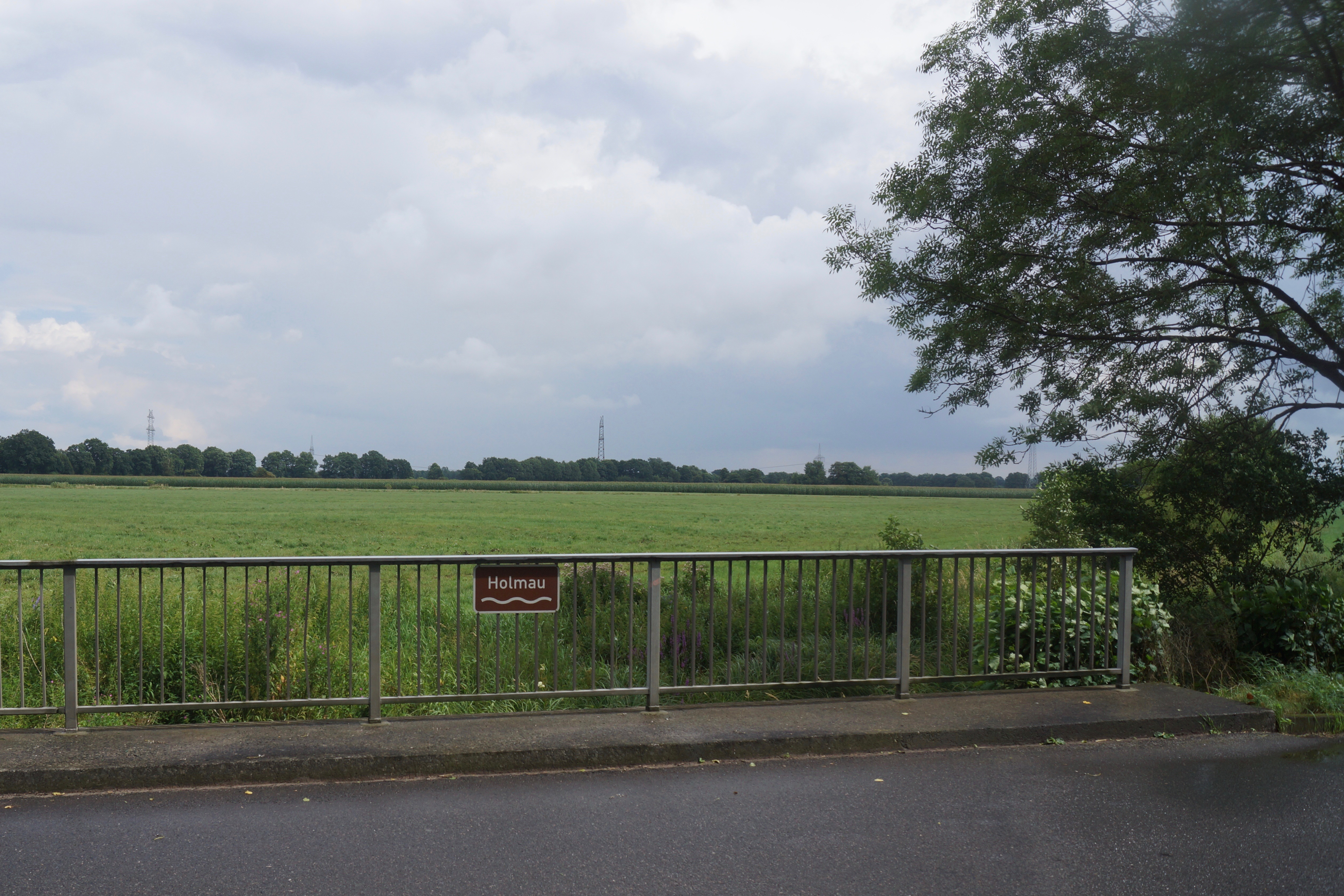 Bimöhlen, Germany: Name Sign on the bridge over the Holmau